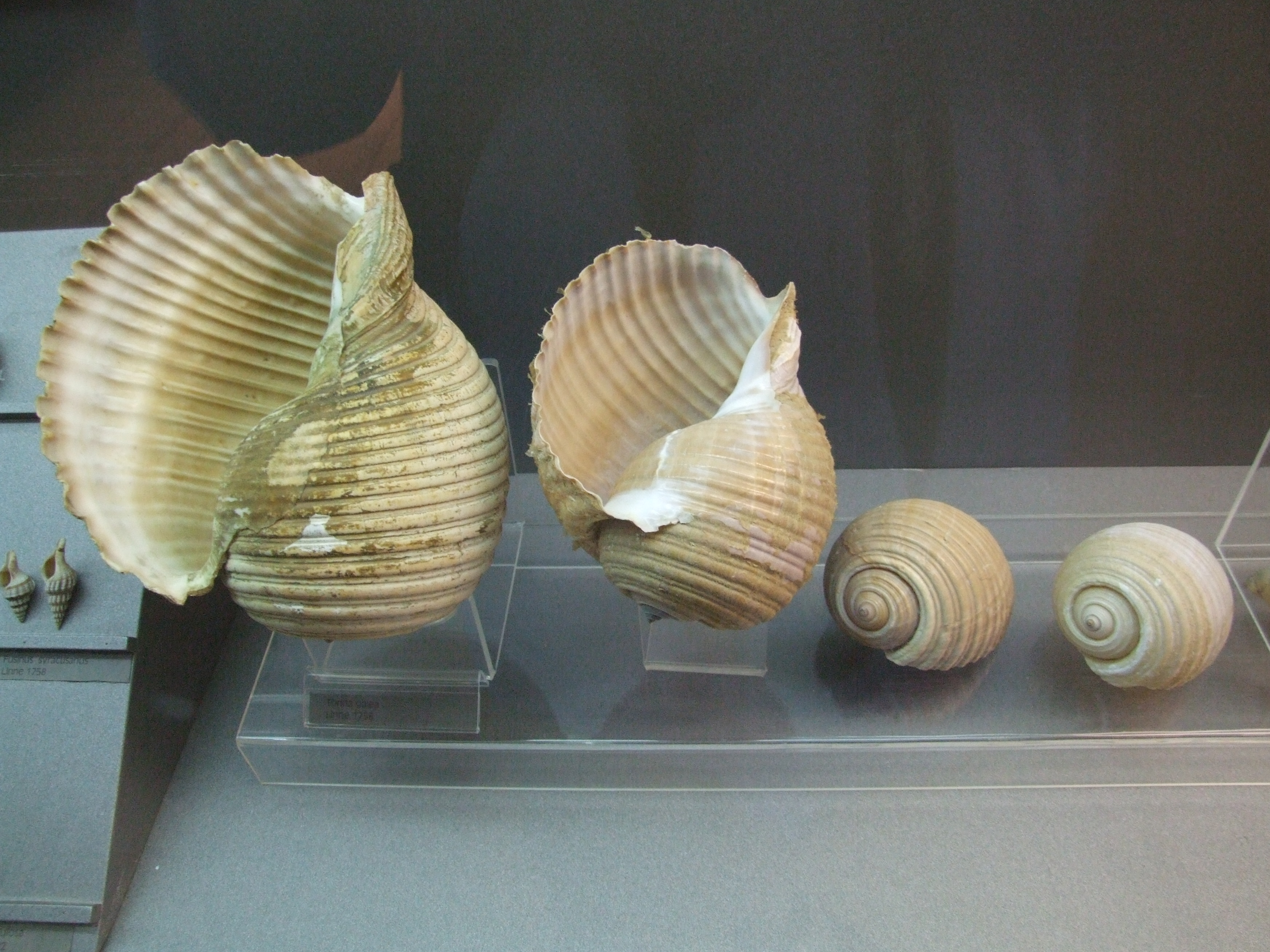 Collection of Tornaritis-Pierides Marine Life Foundation, exhibited at the Thalassa Museum: big shells left side: Tonna galea